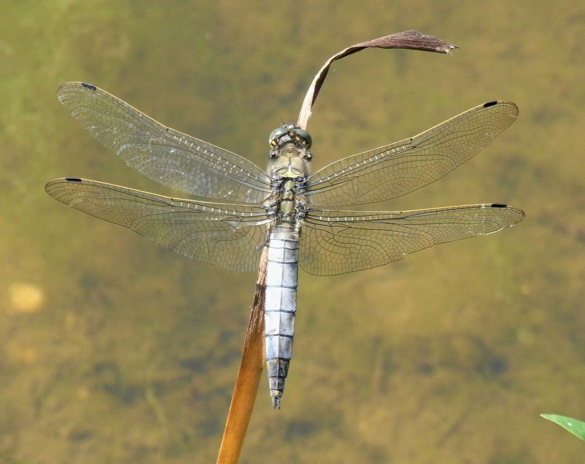 Male Black-tailed Skimmer (Orthetrum cancellatum) near Hamburg, Germany.